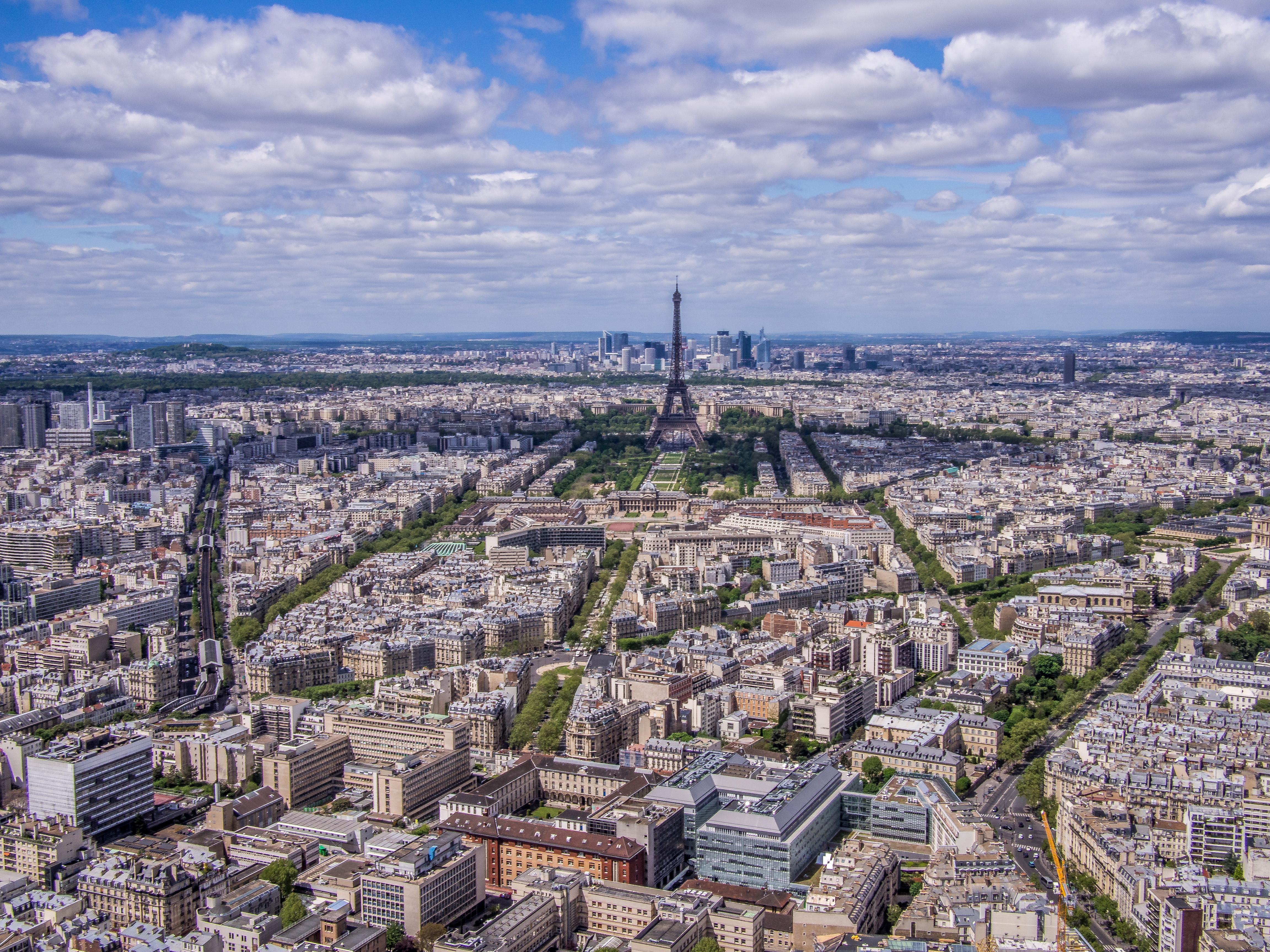 Eiffel Tower from the Tour Montparnasse, Paris, France.